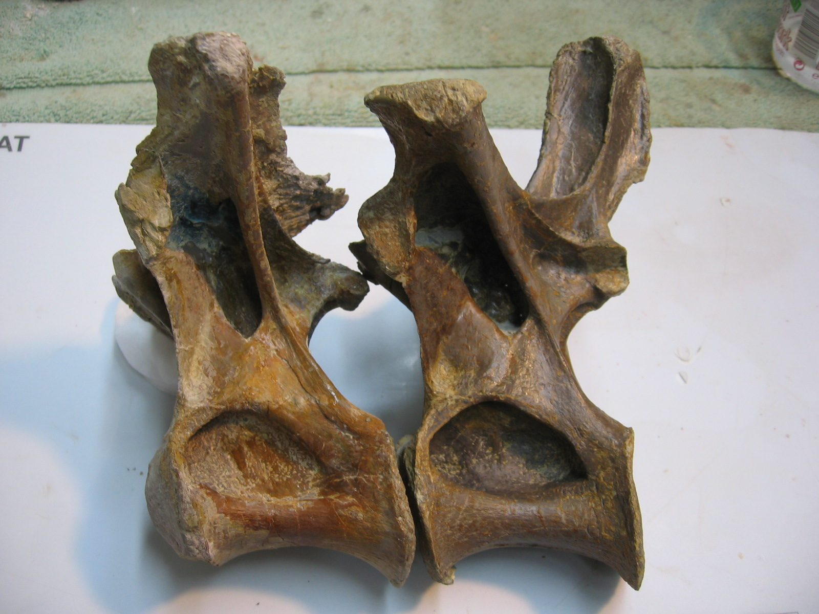 Dorsal vertebrae of Europasaurus holgeri.